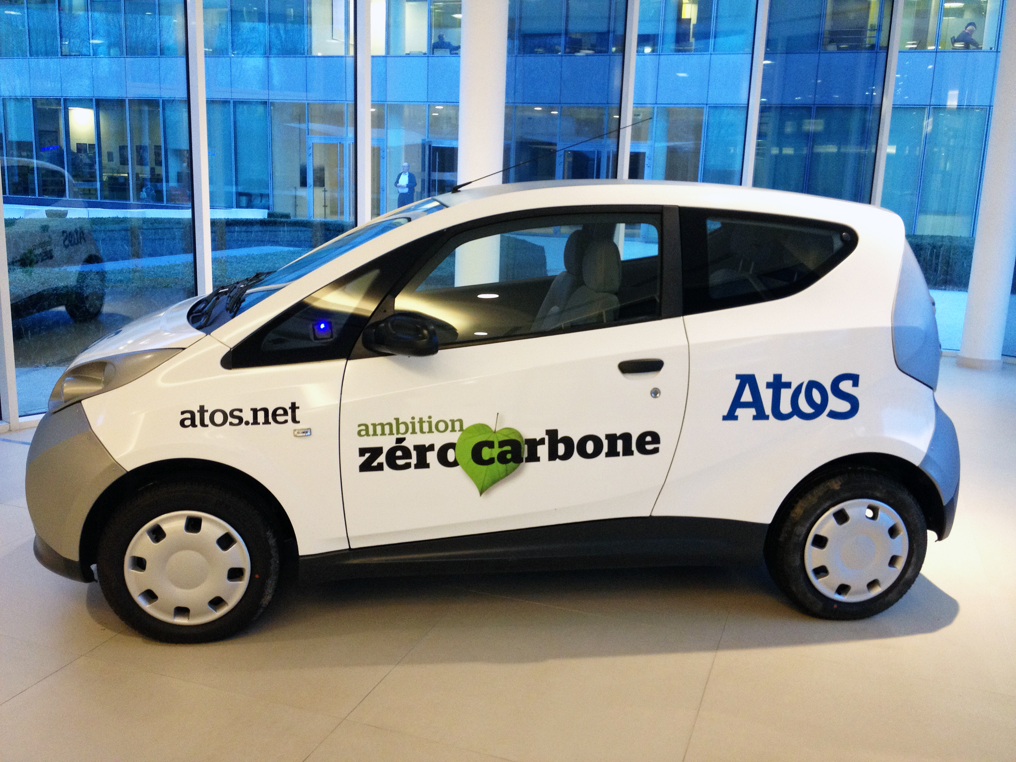 Bolloré Bluecar used by Atos private MyCar carsharing service at its headquarters in Bezons, France